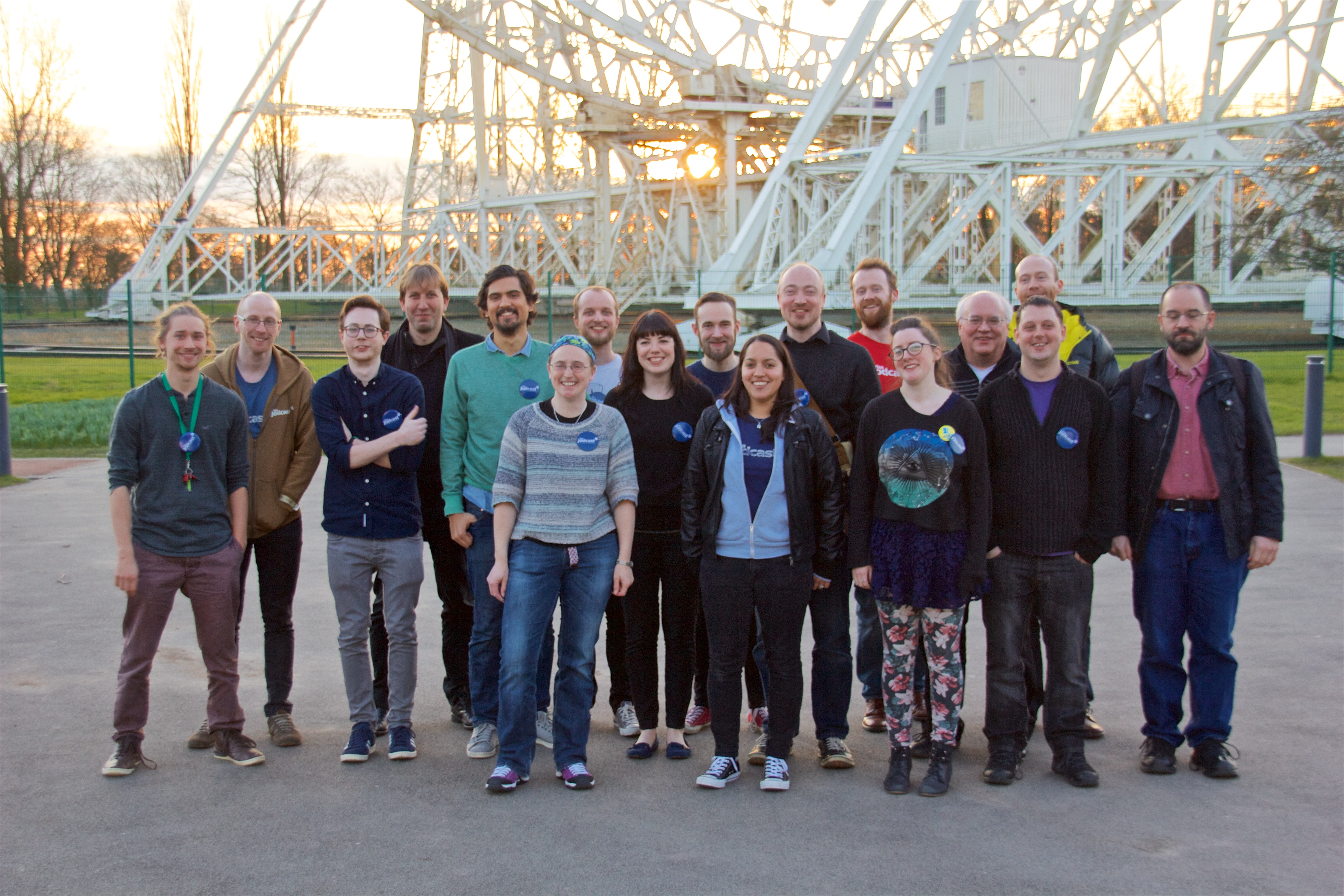 Jodcast Live 2016, at Jodrell Bank Observatory, UK.